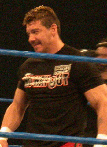 Eddie Guerrero at a SmackDown! taping in Tacoma, WA on February 10, 2004.DSCN6696.JPG